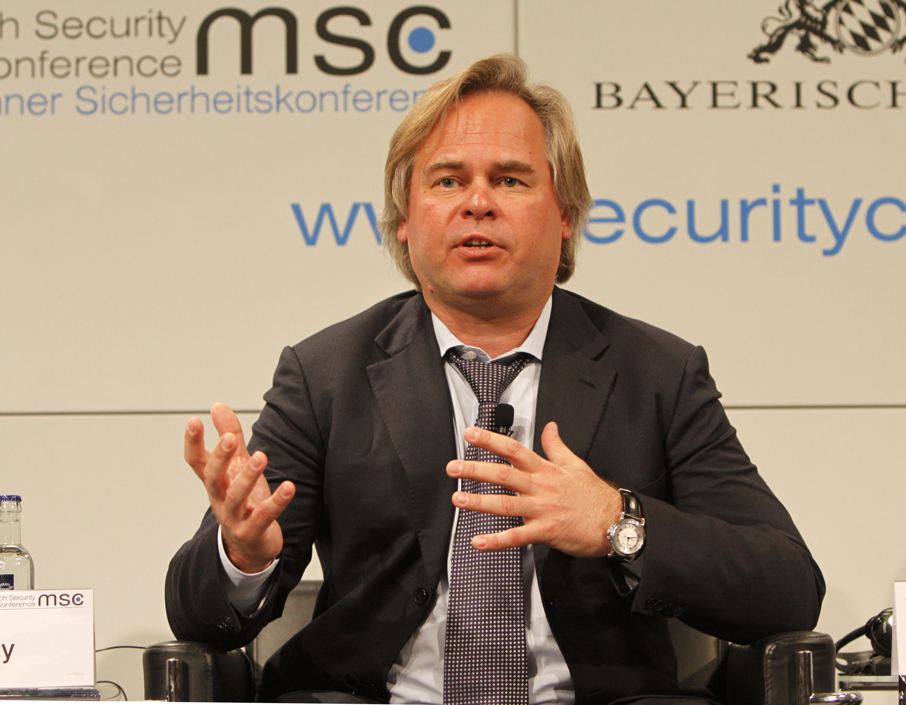 48th Munich Security Conference 2012: Eugene Kaspersky, Chairman and CEO, Kaspersky Lab, Moscow.